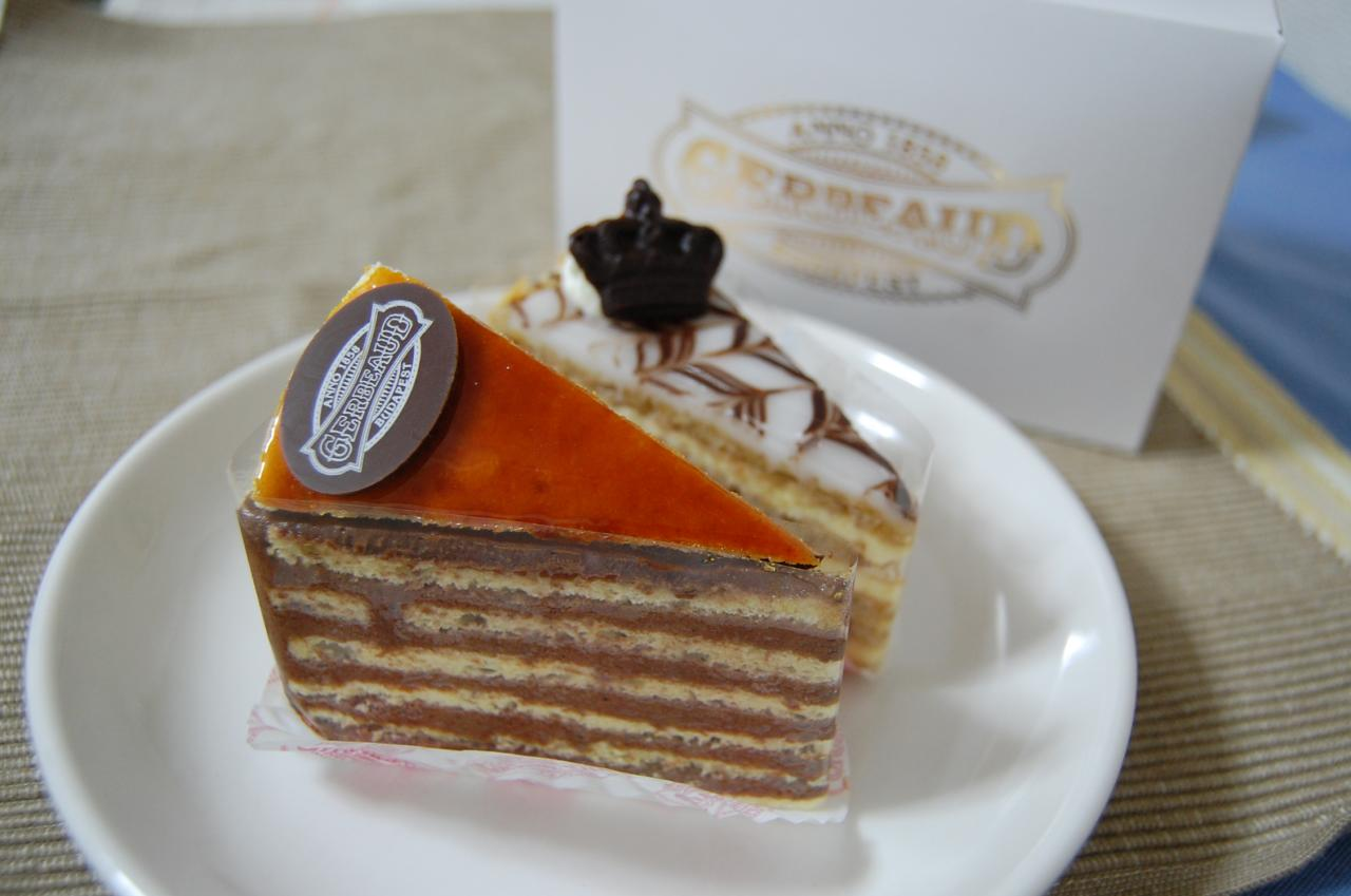 Gerbeaud Budapest